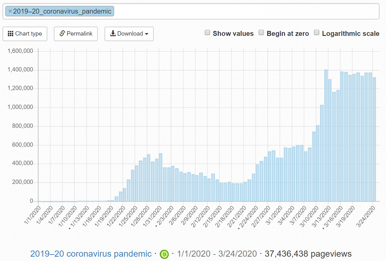 Pageviews Analysis 2019–20 coronavirus pandemic 24 March 2020 uses the "Include redirects" feature applied to en:2019–20 coronavirus pandemic documentation of tool at meta:Pageviews Analysis